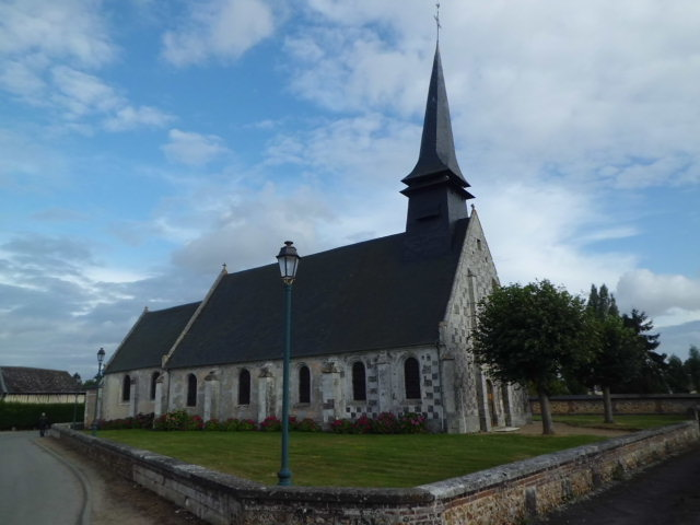 Saint-Aubin Church at Saint-Aubin-le-Guichard, Eure, Normandie